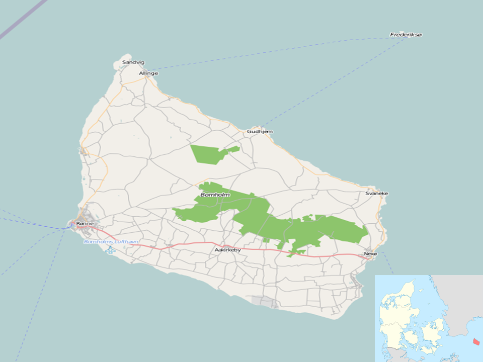 Map of Bornholm, Denmark Geographic limits of the map: N: 55.361° S: 54.937° W: 14.584° E: 15.298°